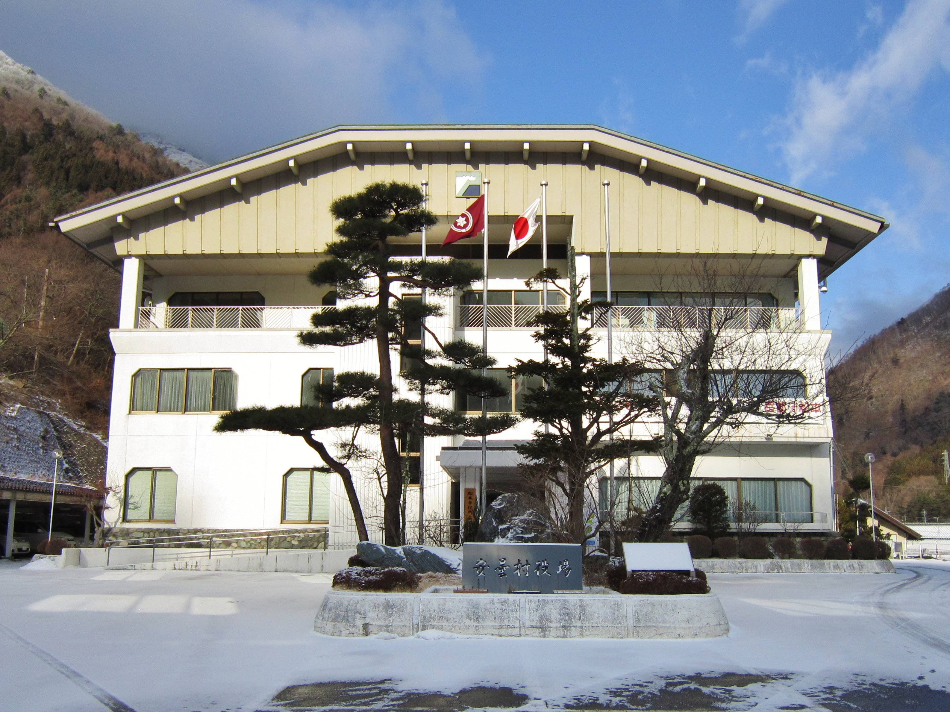 Matsumoto city Azumi branch office.